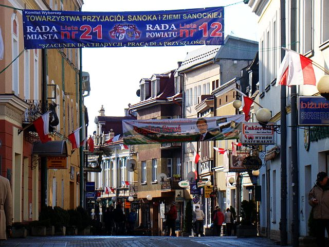 Category:Sanok local elections, 2010.